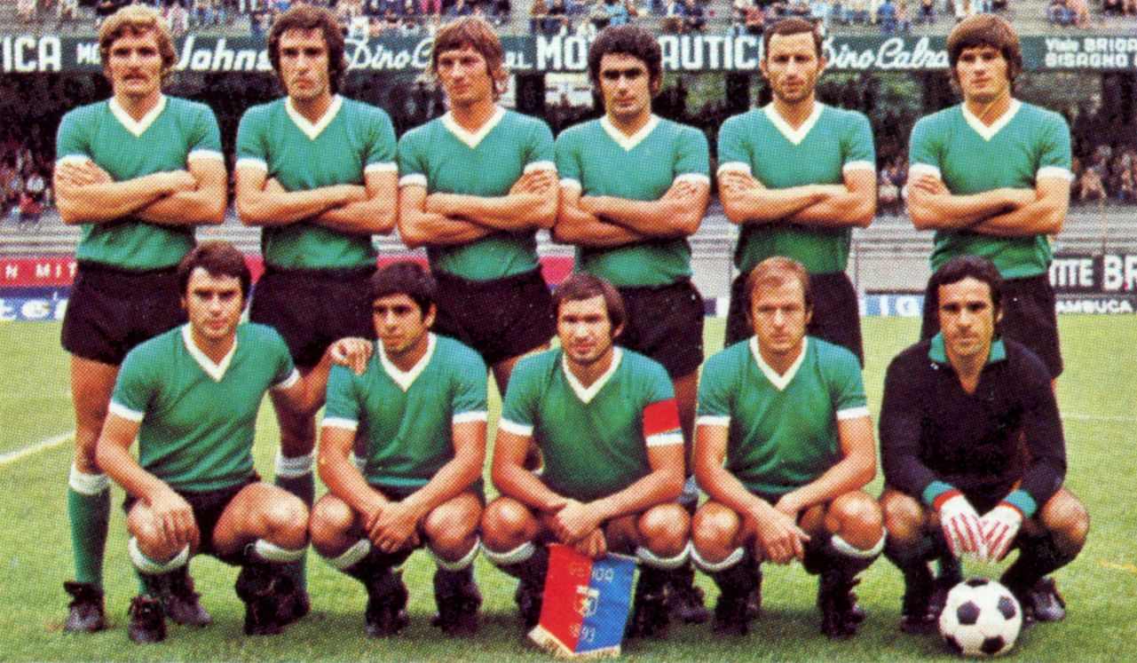 Genoa (Italy), Luigi Ferraris Stadium, September 23, 1973. The line-up of U.S. Avellino took to the pitch in the away defeat versus Genoa 1893 (1-0), Matchday 4 of 1973–74 Coppa Italia group stage.